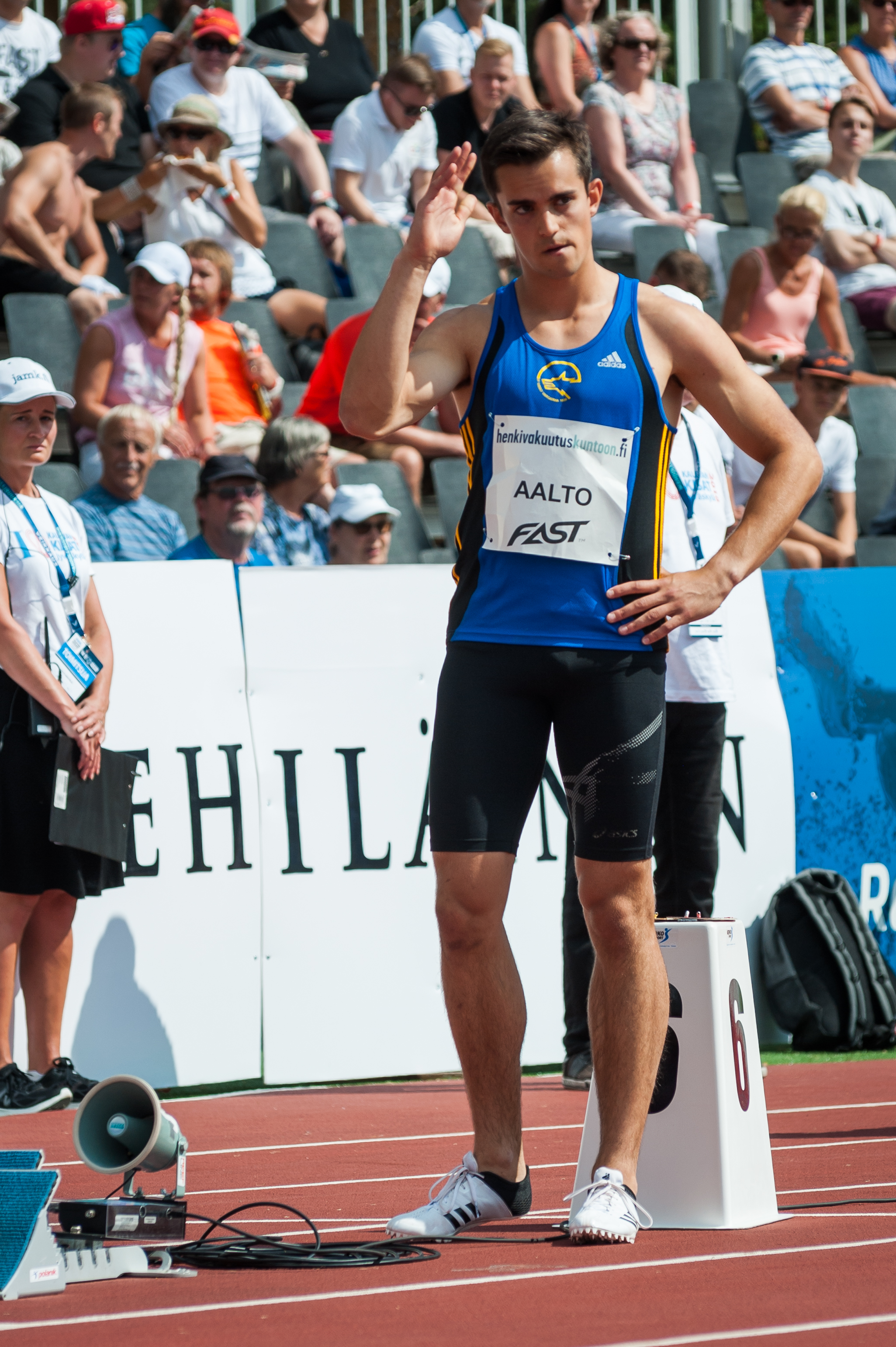 Men's 200 m competition at the 2018 Kalevan Kisat, the Finnish championships in athletics, in Jyväskylä, Finland.